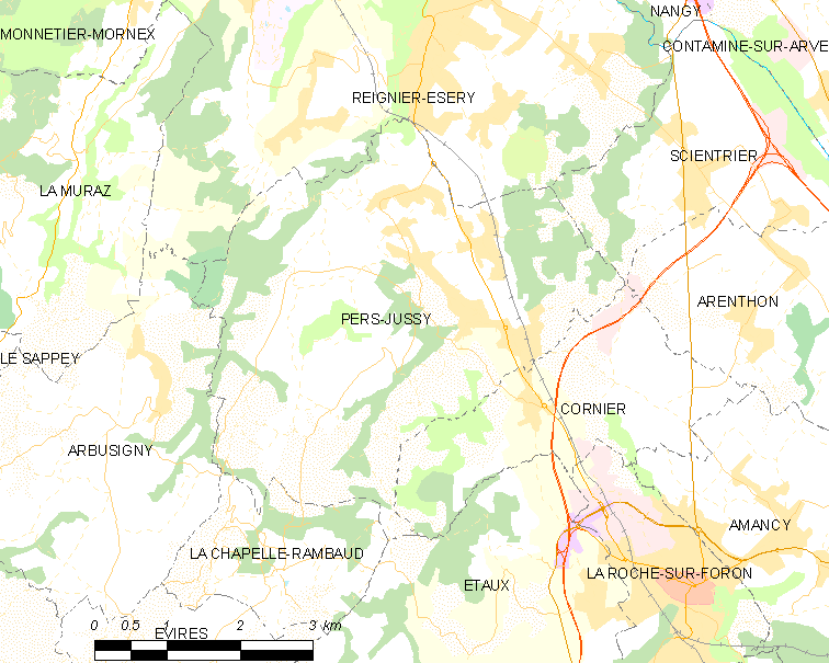 Map of French municipality Pers-Jussy